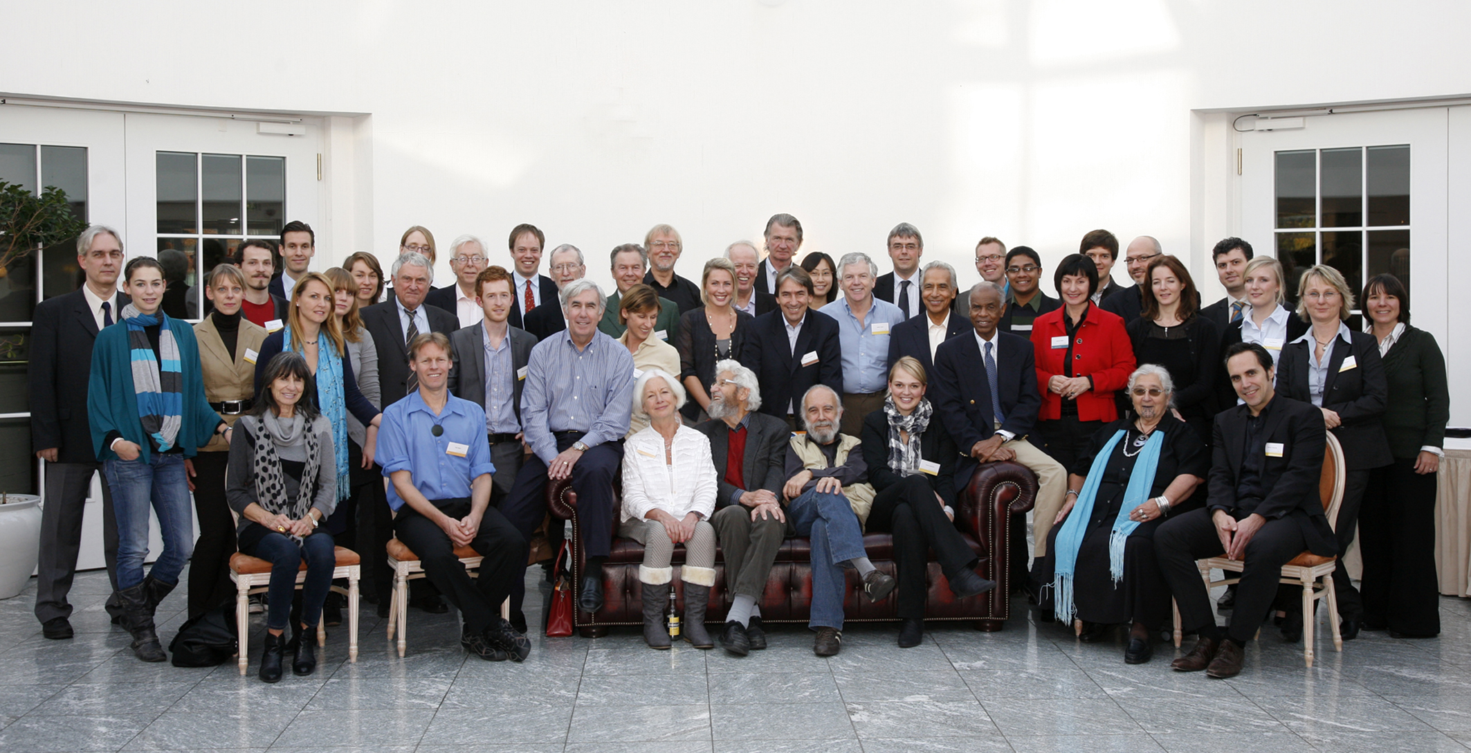 World Future Council Annual General Meeting 2011